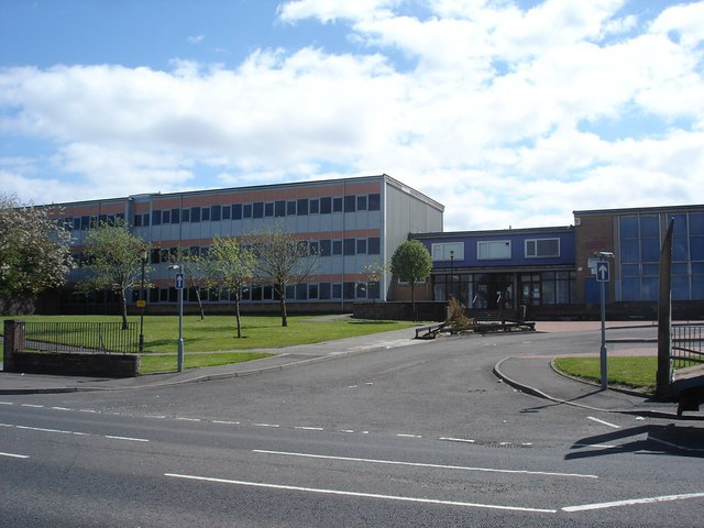 Armadale Academy on western edge of Armadale, West Lothian. Built in the 1960's this is due to be replaced as old mine workings and a poor structure have made it unsuitable.